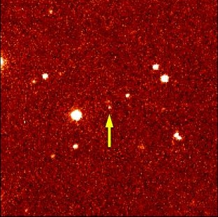 Sedna was discovered from an image dated 2003-11-14 at coordinates 03 15 10.09 +05 38 16.5. The "bright star" near Sedna is apmag 14.9 and about the same magnitude as Pluto. (Wikisky image of this region) The picture shows an area of the sky equal to the area covered by a pinhead held at arm's length. Sedna is too faint to be seen by all but the most powerful amateur telescopes using ccd imaging.